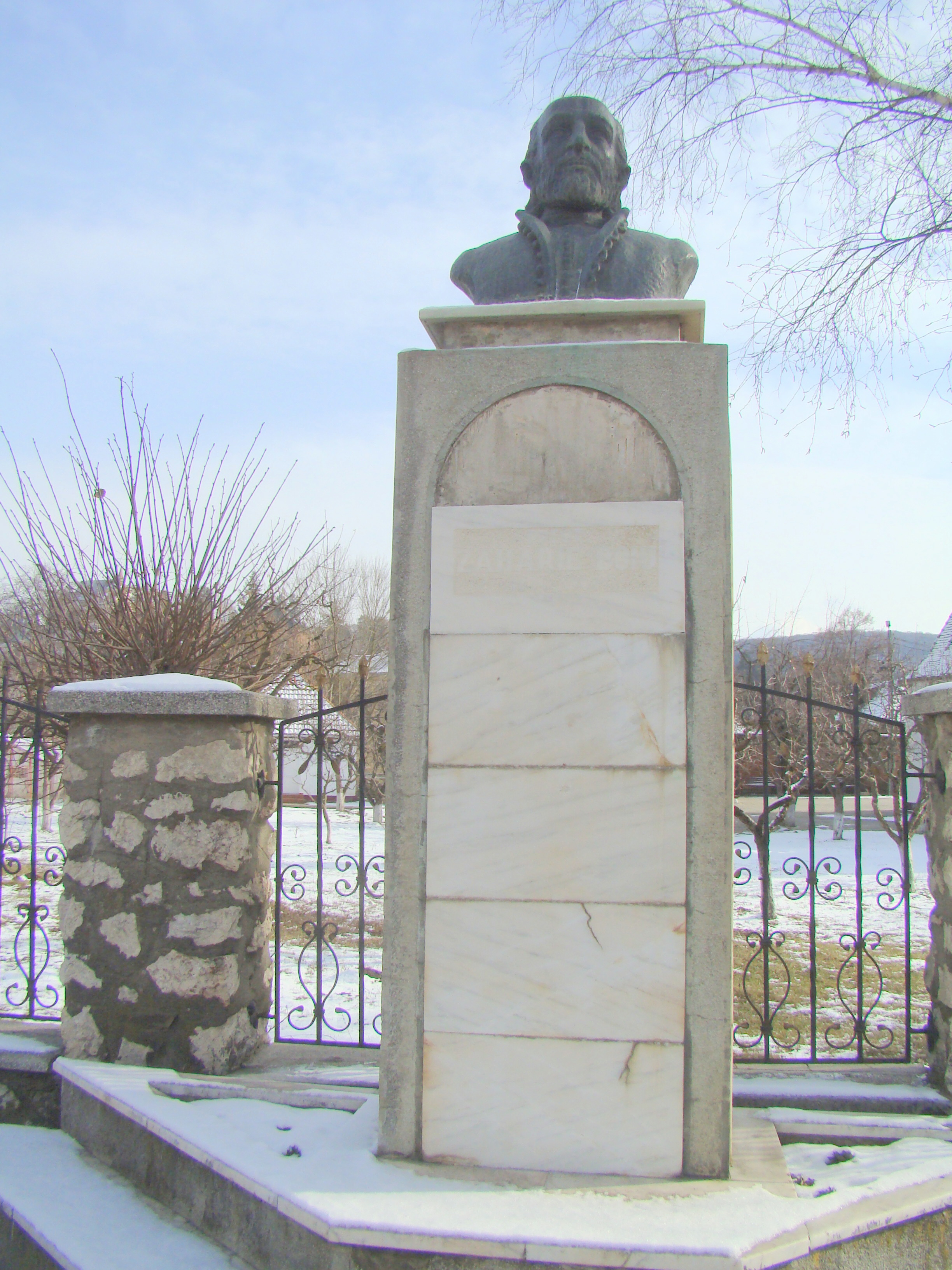 Bust of Zaharia Boiu in Sighișoara, Mureş county, Romania